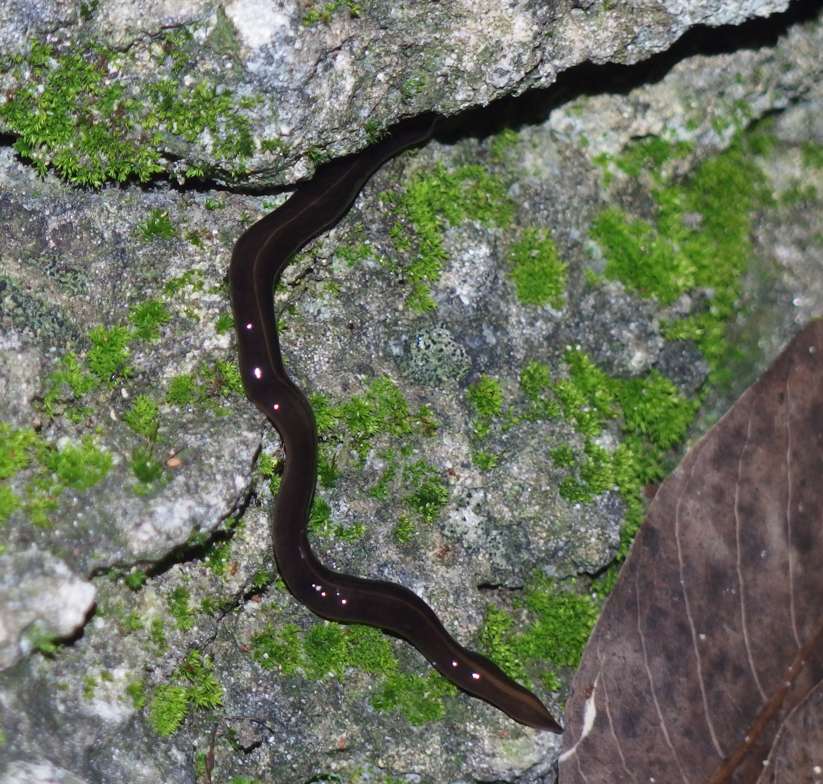 Figure 1 of paper. ""Platydemus manokwari"" in Coral Gables, Florida, USA. DOI